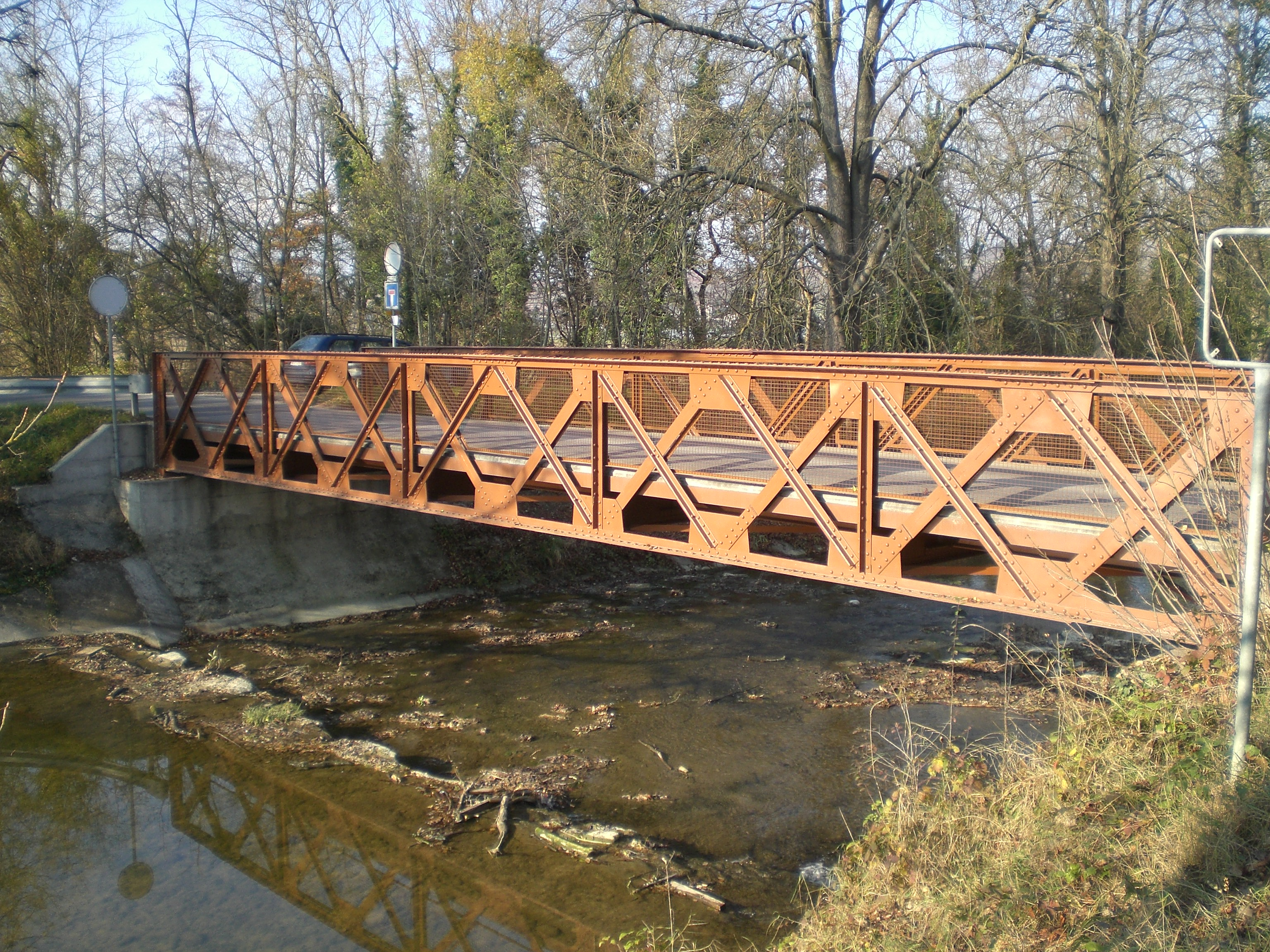 Bridge of the Therens street on the Aire river